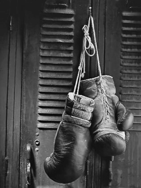 Arash Hashemi